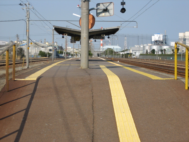 Minami-Yokkaichi Station